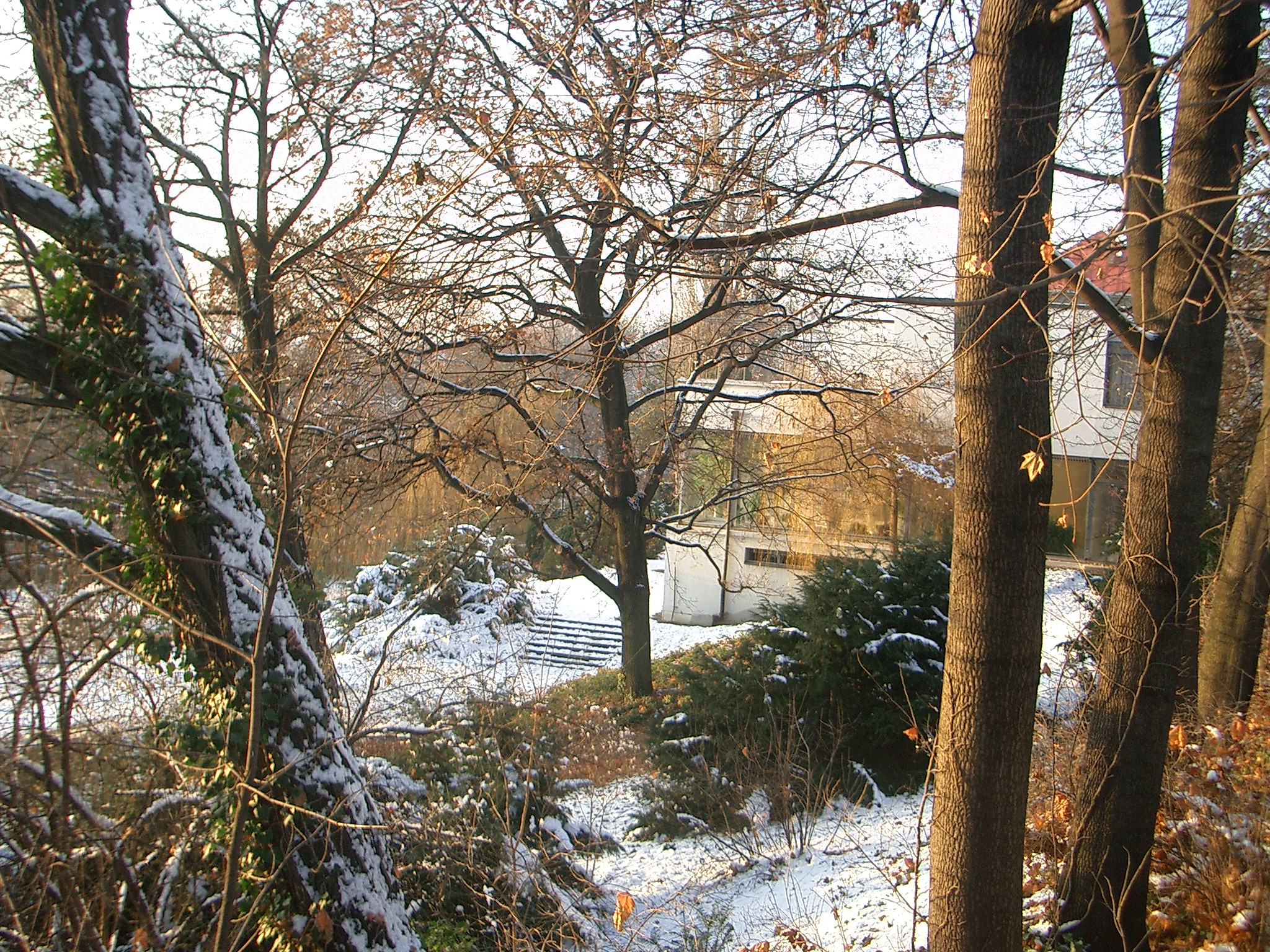 Villa Tugendhat, left side view from the street. Taken on 2nd December 2005 in Brno, Czech Republic. Author: Jean-Claude Brunner